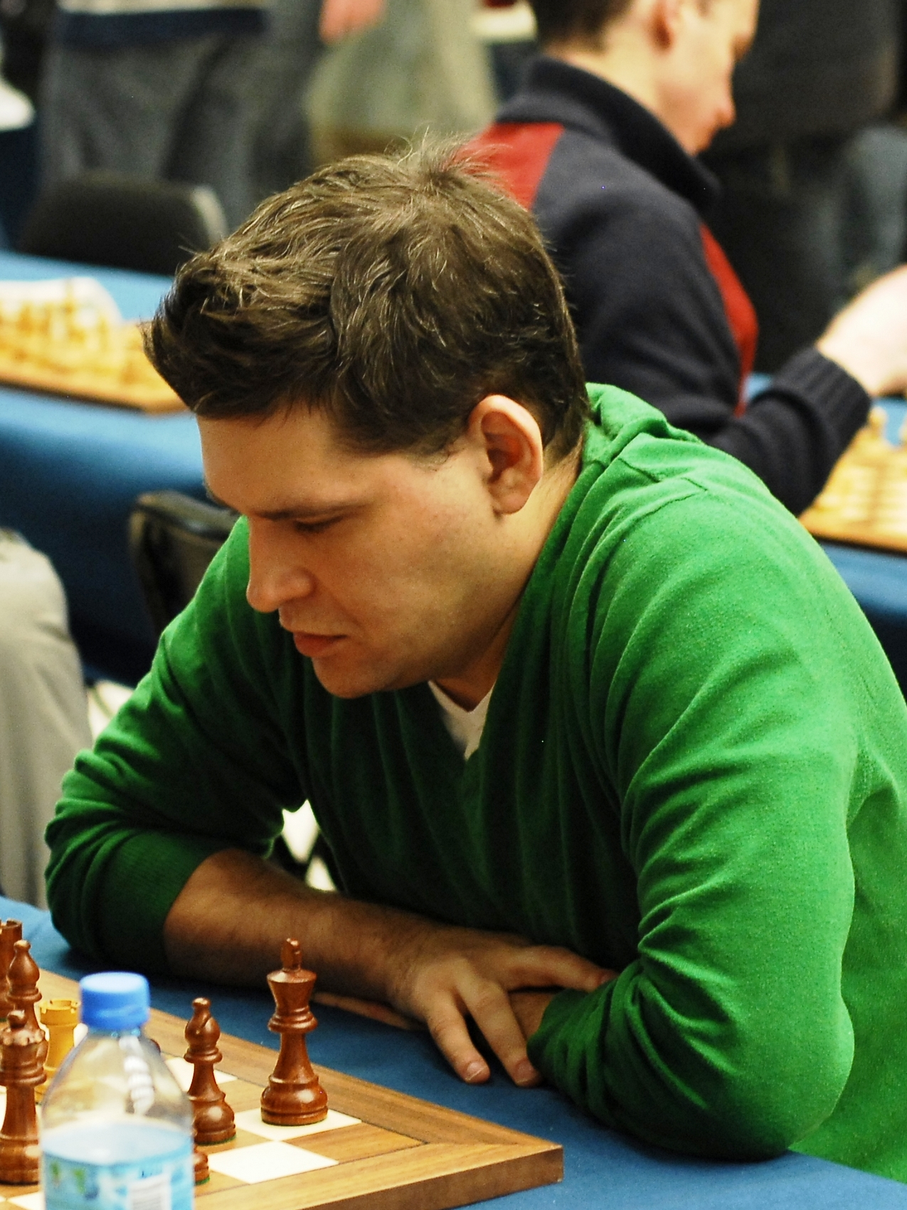 GM Vladislav Tkachiev, European Rapid Chess Championship, Warsaw 2012.